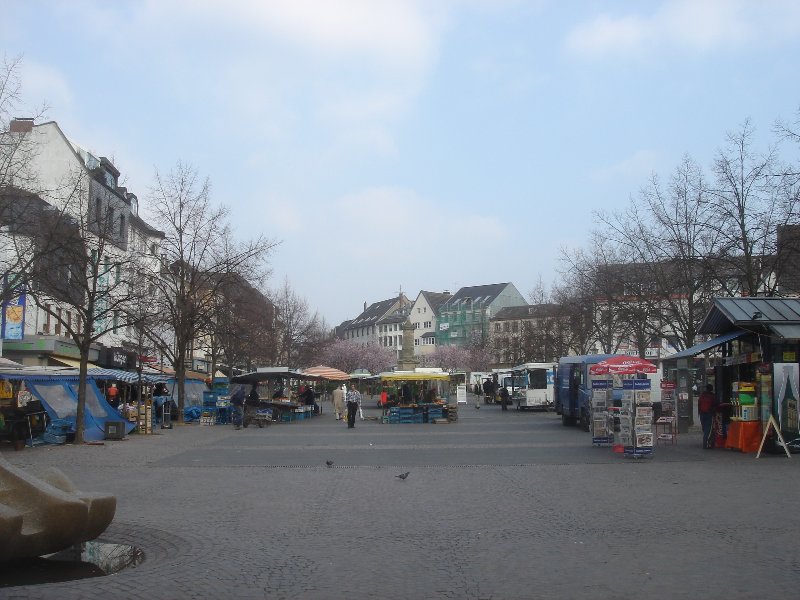 Market place of Siegburg, Germany